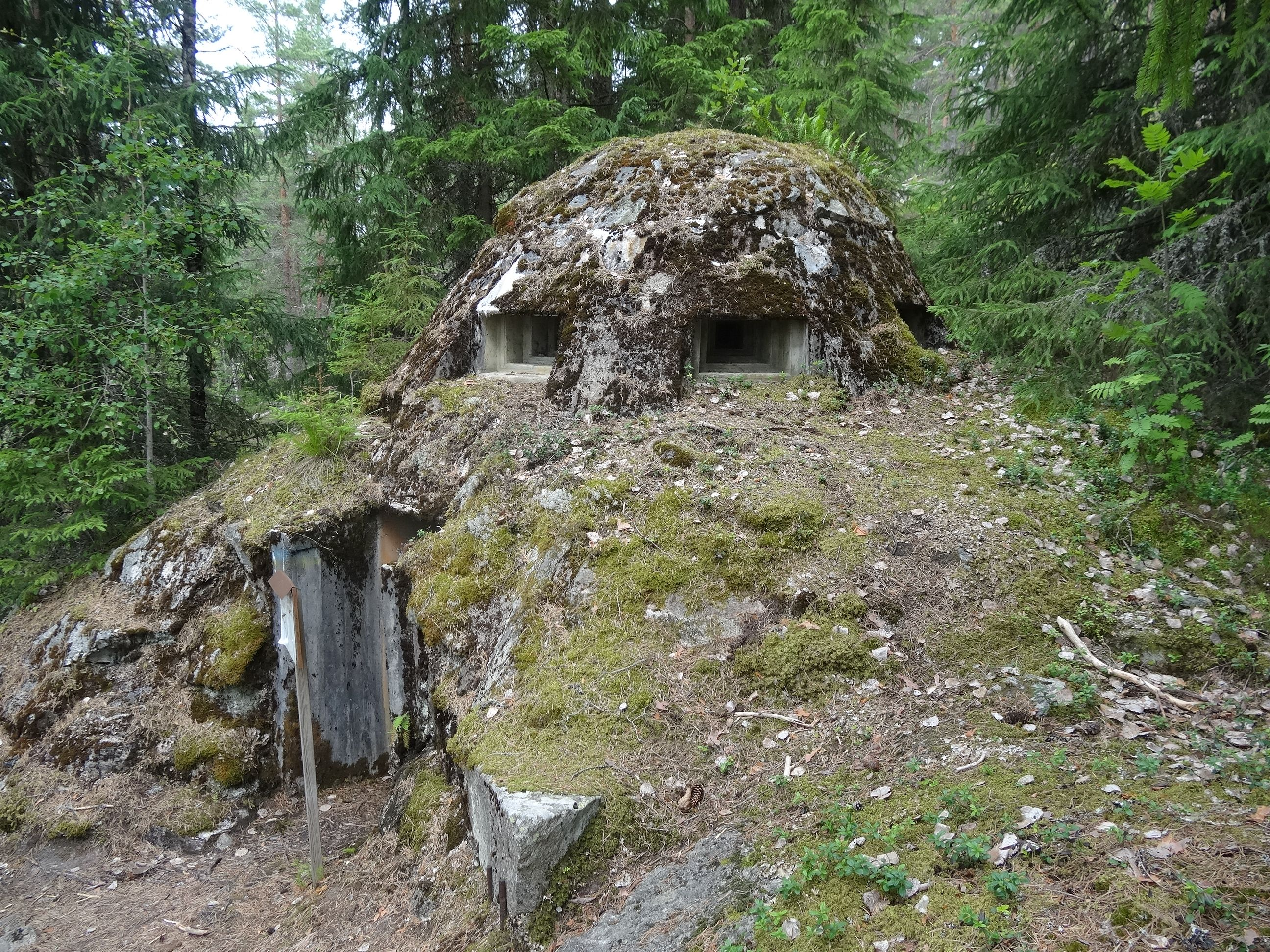 Light machine-gun shelter. Used for fire from light machine-gun in all directions. Probably also used for observation.